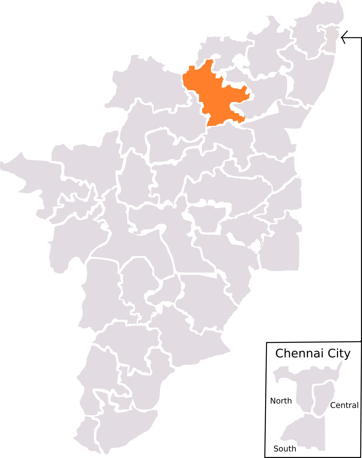 Lok Sabha Election map for Tamil Nadu that illustrates constituencies put in place by 1971 delimitation that was replaced in 2008. Map is based on ECI drawn map.